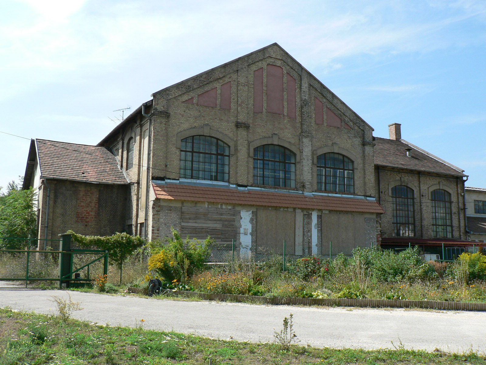 A Solymár-akna gépháza észak (a vasút) felől nézve